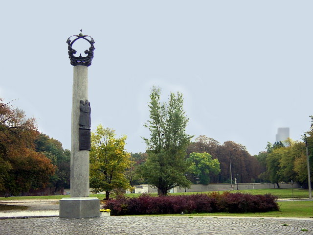 Statue placed in the area, where 10 polish kings were elected during 1575-1764 period, located in Warsaw, capital of Poland.